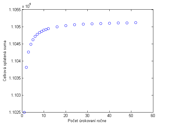 Plot of total amount paid on a loan by different compoundings of interest.